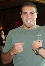 Author: Josh Vandegriff, who was contacted and agreed to release the image under the terms of the Creative Commons Attribution-ShareAlike 3.0 license. Permission is on file with the WMF.